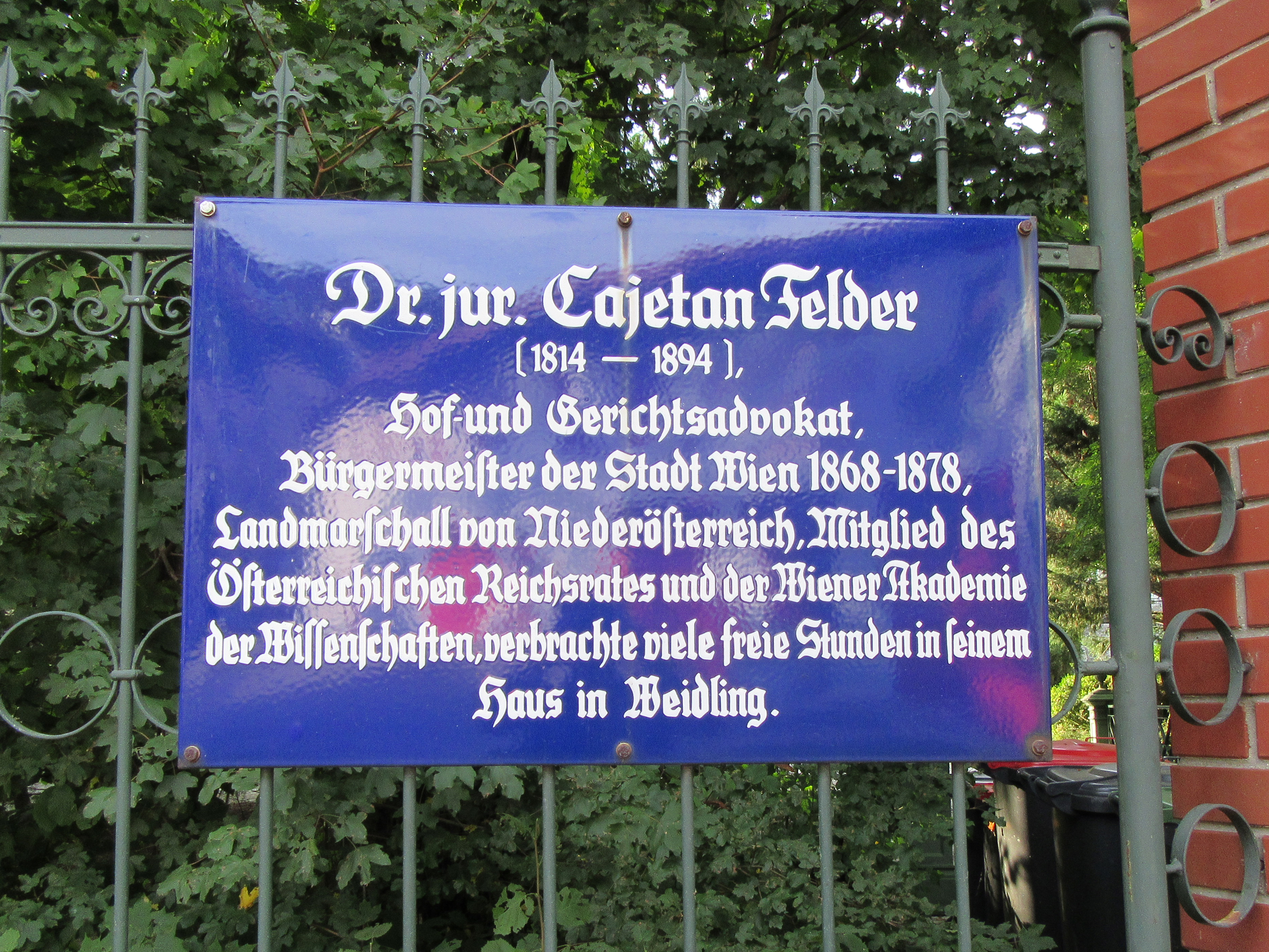 Memorial plaque to Cajetan Felder (1814–1894), politician and mayor of Vienna, Feldergasse 3, Weidling (Klosterneuburg)